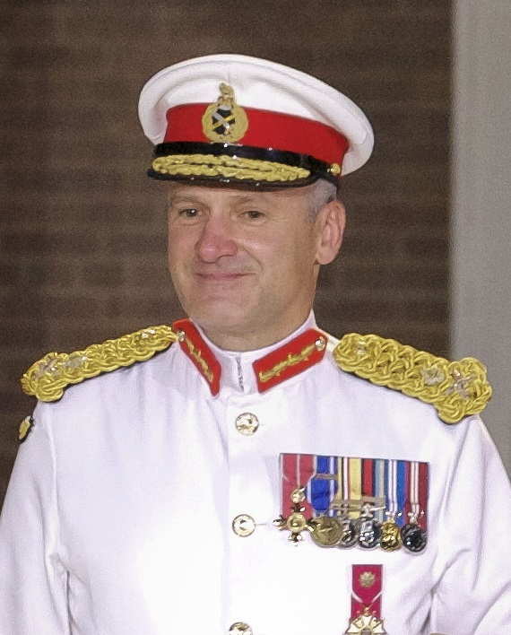 Major General Edward Grant Martin Davis CBE